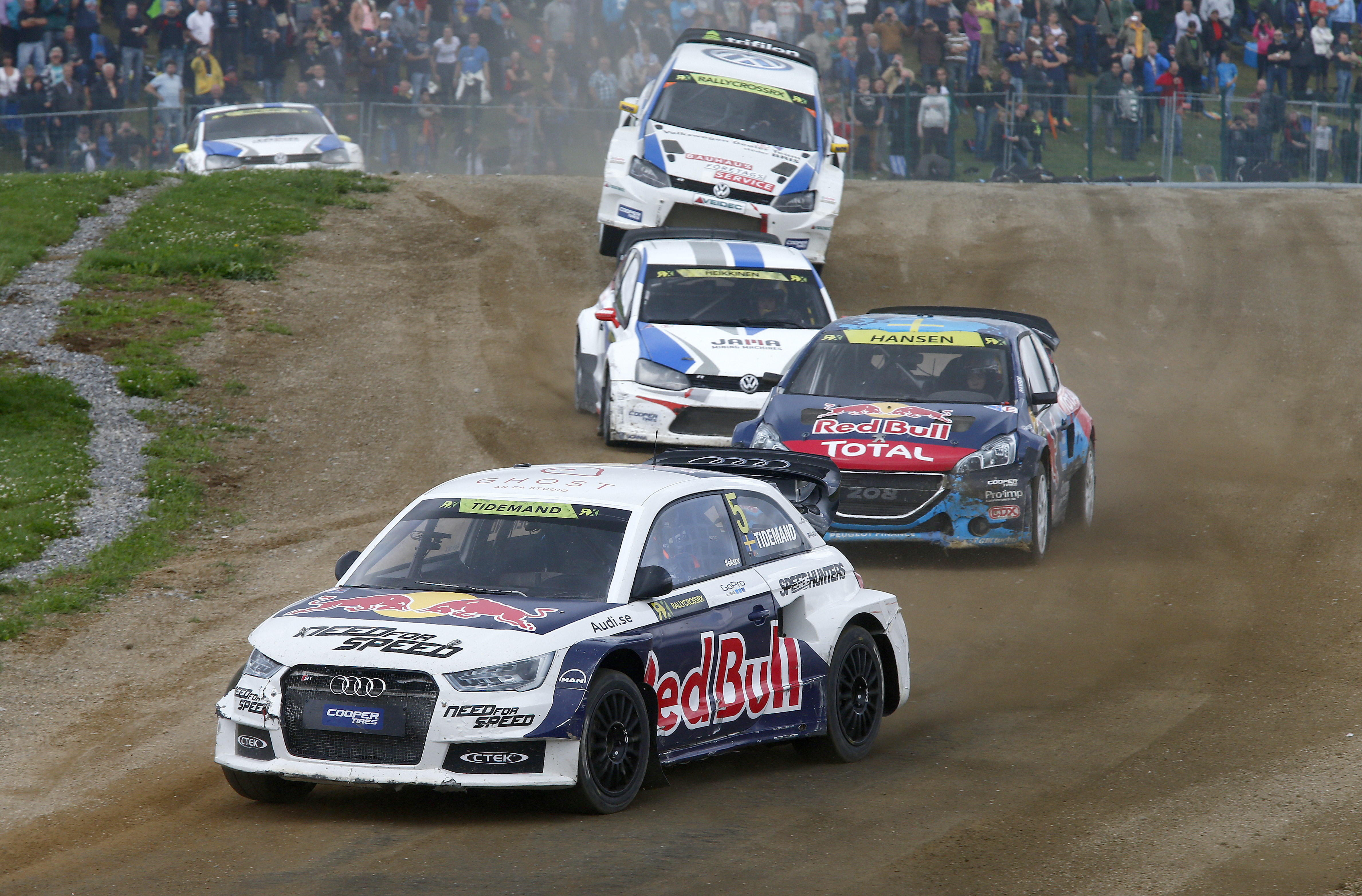 2014 FIA World Rallycross Championship Round 06 Mettet, Belgium 12th & 13th July 2014 Worldwide Copyright: EKS/McKlein